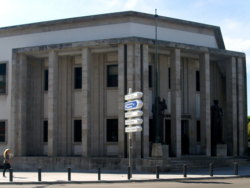 Palace of Justice of Póvoa de Varzim (Judicial Court)